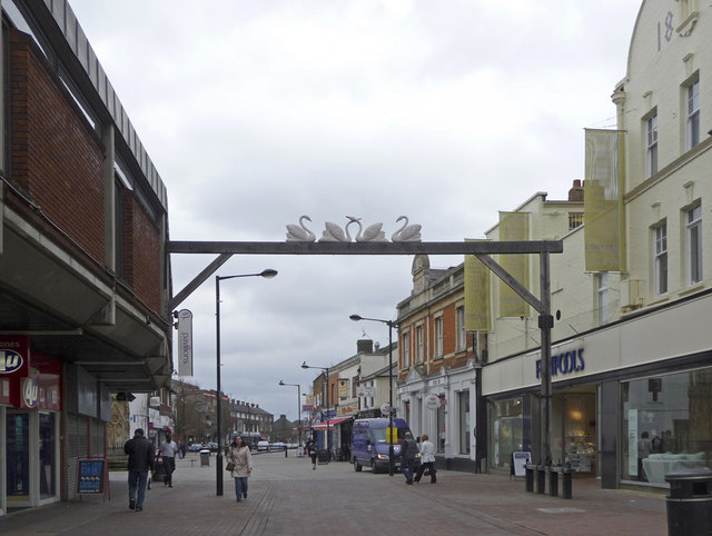 Waltham Cross, Hertfordshire Waltham Cross shopping centre with Fishpools on the right and the Pavilions Shopping Centre on the left. The whole of the gallows sign for the now demolished Four Swans public house can be seen. Part of the Eleanor Cross can just be seen on the left of the image just past the Pavilions building.